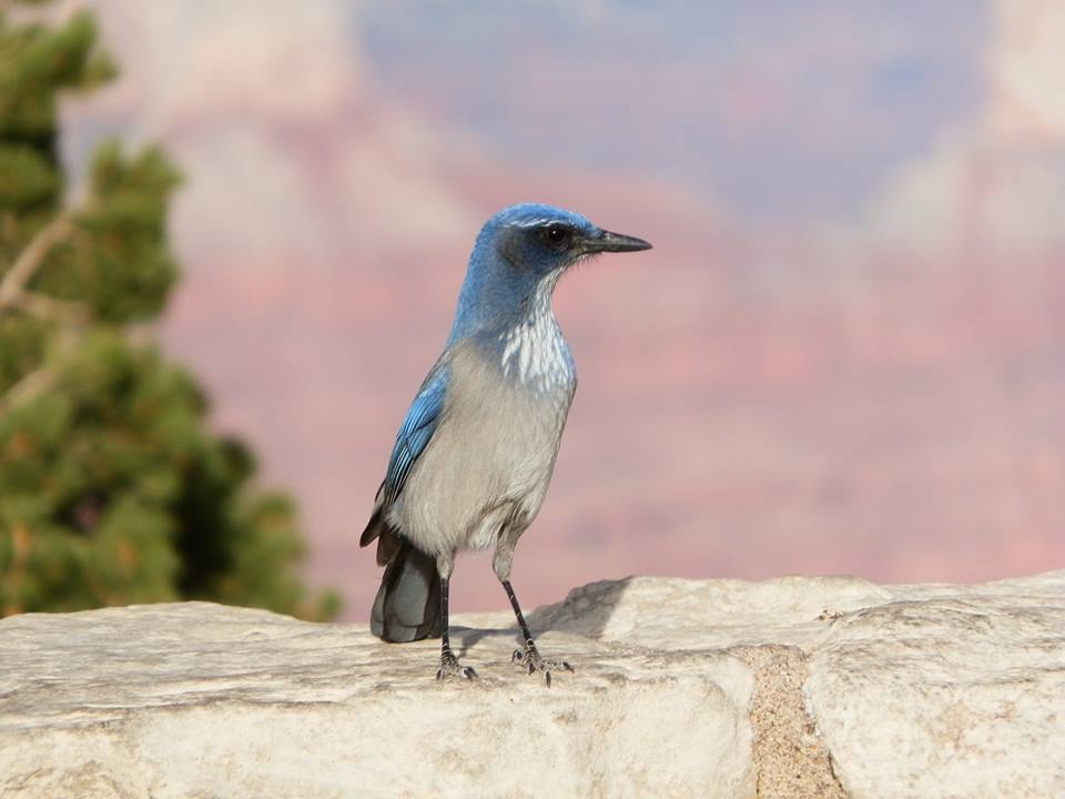 Woodhouse's Scrub Jay Aphelocoma woodhouseii at Grand Canyon National Park